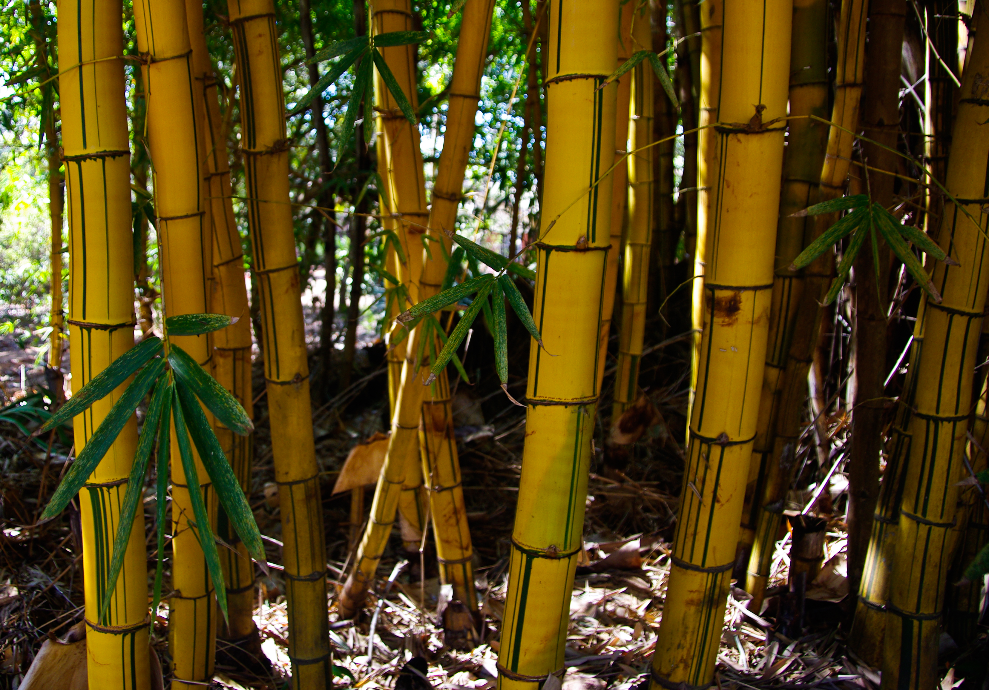 Yellow Bamboo in Malawi